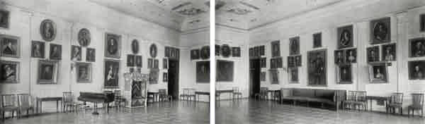 Portrait gallery of the Galitzine Palace in Zubrilovka. It was destroyed by fire in 1905.